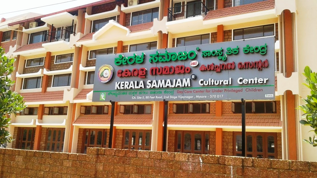 Karnataka, India.